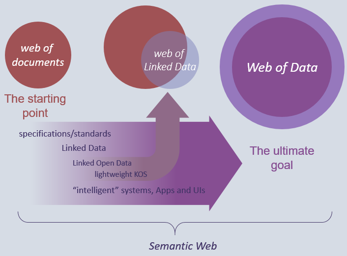 Explanatory diagram for the comprehensive concept of Semantic Web and its relationship with the concepts Web of Data and Linked Data